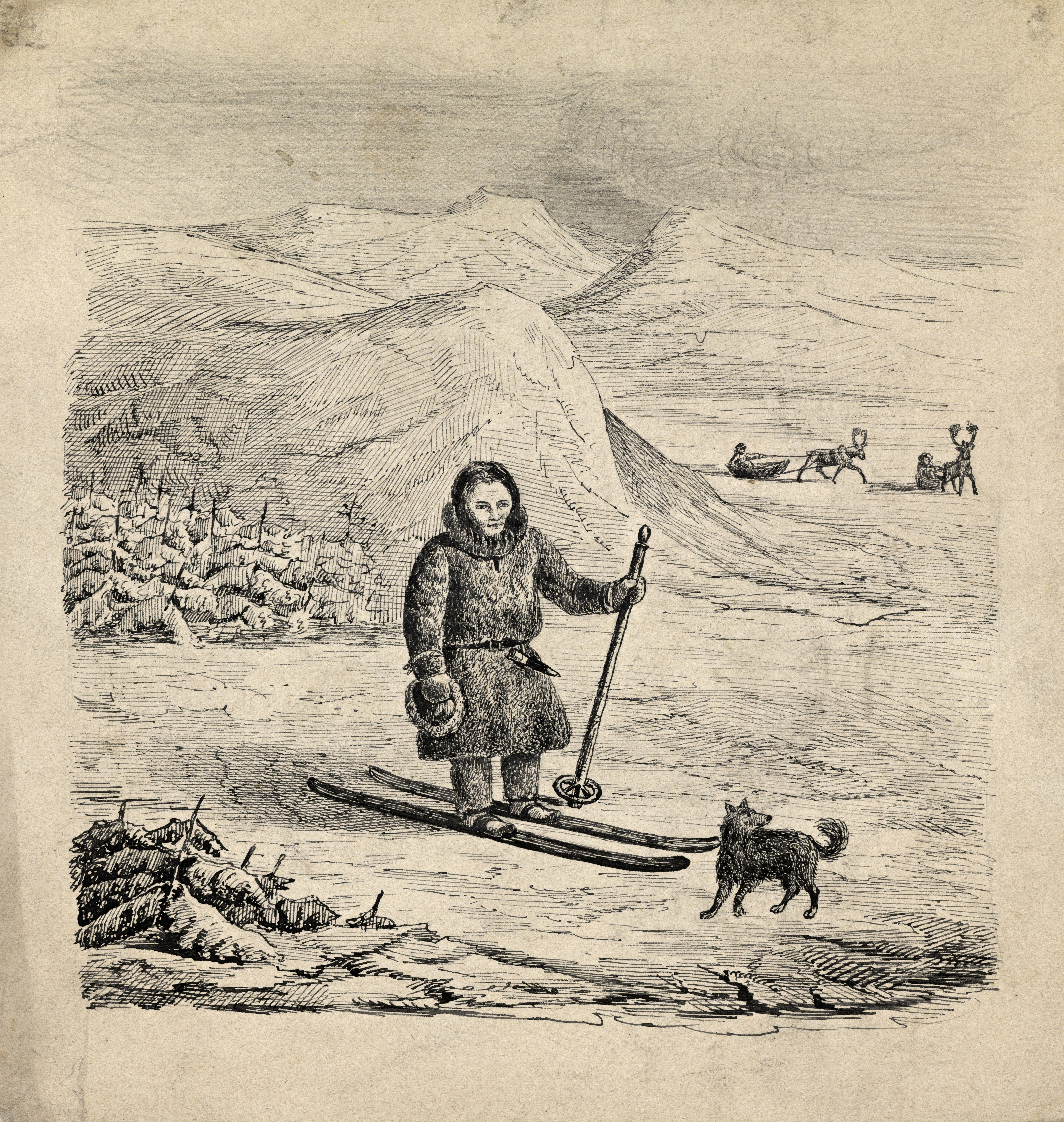 Dato / Date: ukjent / unknown Kunstner / Artist: ukjent / unknown Digital kopi av original / Digital copy of original: tusjtegning Eier / Owner Institution: Nasjonalbiblioteket / National Library of Norway Lenke / Link: Bildesignatur / Image Number: blds_08308